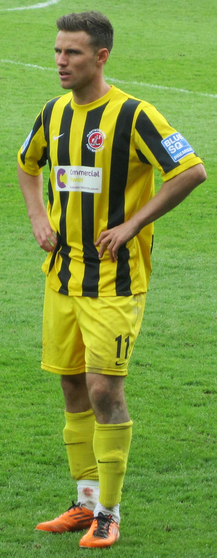 Peter Till